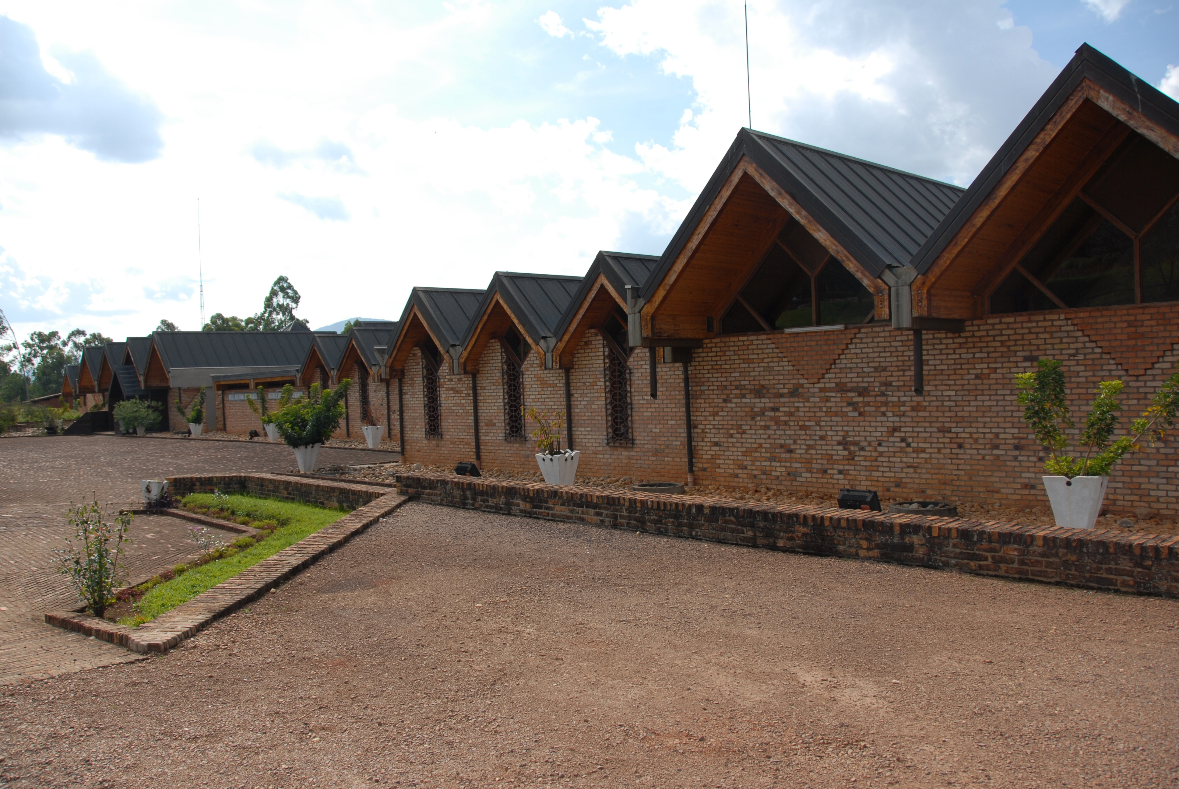 National Museum of Rwanda - Butare